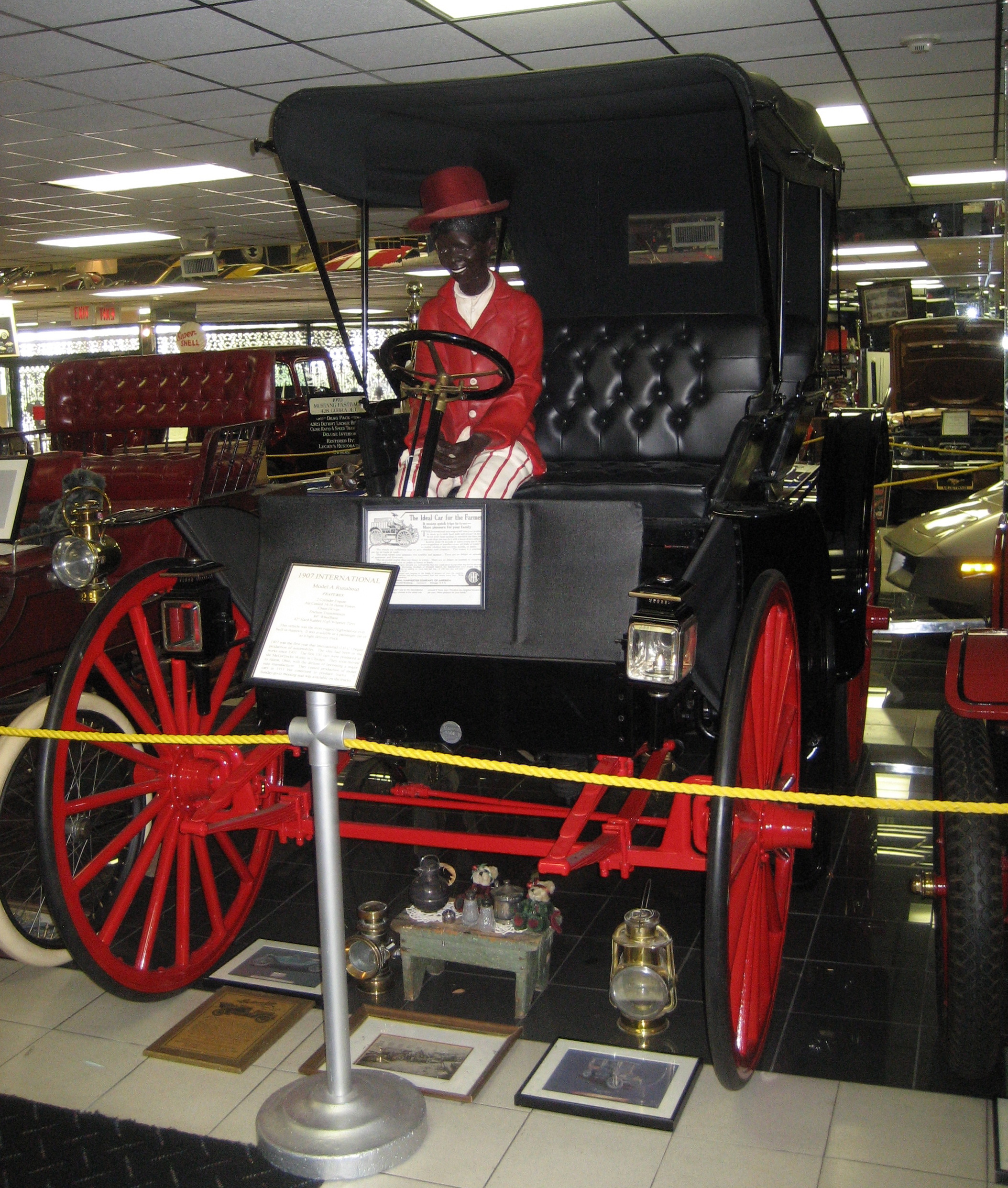 1907 International Model A Runabout on display at Tallahassee Automobile Museum with unfortunate accumulation of irrelevant kitsch. According to the display, has 2 cylinder engine, air cooled, 14 to 16 hp, chain driven friction transmission, 84 inch wheel base.